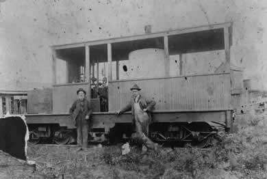 Picture showing the 10 t A-Class Climax locomotive, which was delivered in May 1888 to Bush & Belknap, Eagle, PA. Gauge was 36 inch. The person on the left is Charles D. Scott. The locomotive was the 2nd Climax locomotive ever built.